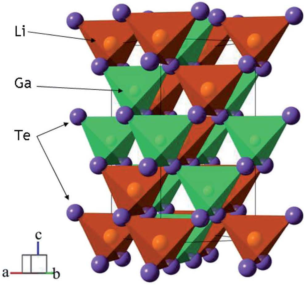 The crystal structure of LiGaTe2 chalcopyrite. The unit cell is outlined. Lone lithium and gallium atoms are omitted for clarity.